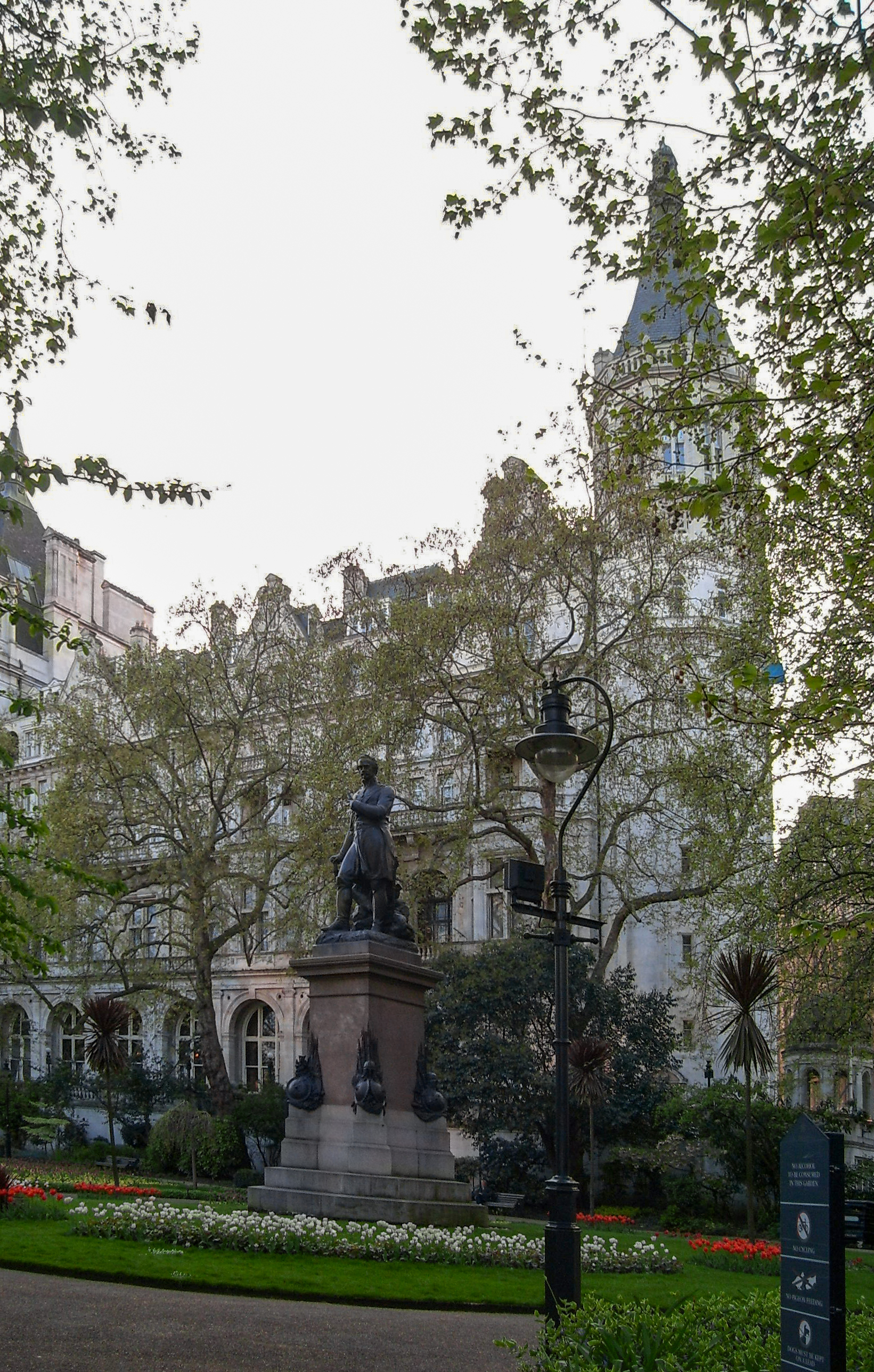 National Liberal Club. London.